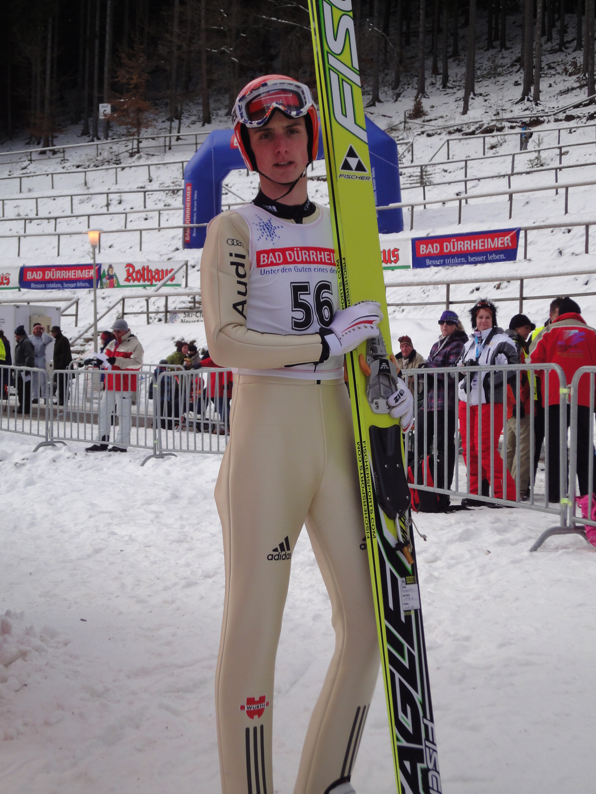 Felix Schoft: the photo was taken during Saturday's competition of 2011's Continental Cup event at the Hochfirstschanze in Titisee-Neustadt